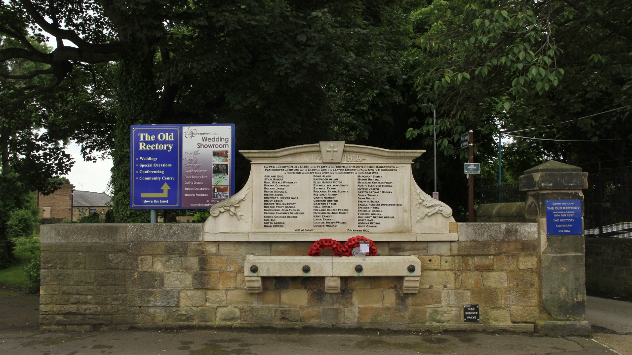 War memorial outside the parish church of St Mary the Virgin, Handsworth, Sheffield, South Yorkshire, seen from the north